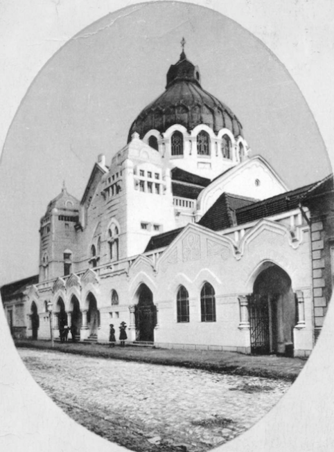 Historical Synagogue of Pančevo, Serbia